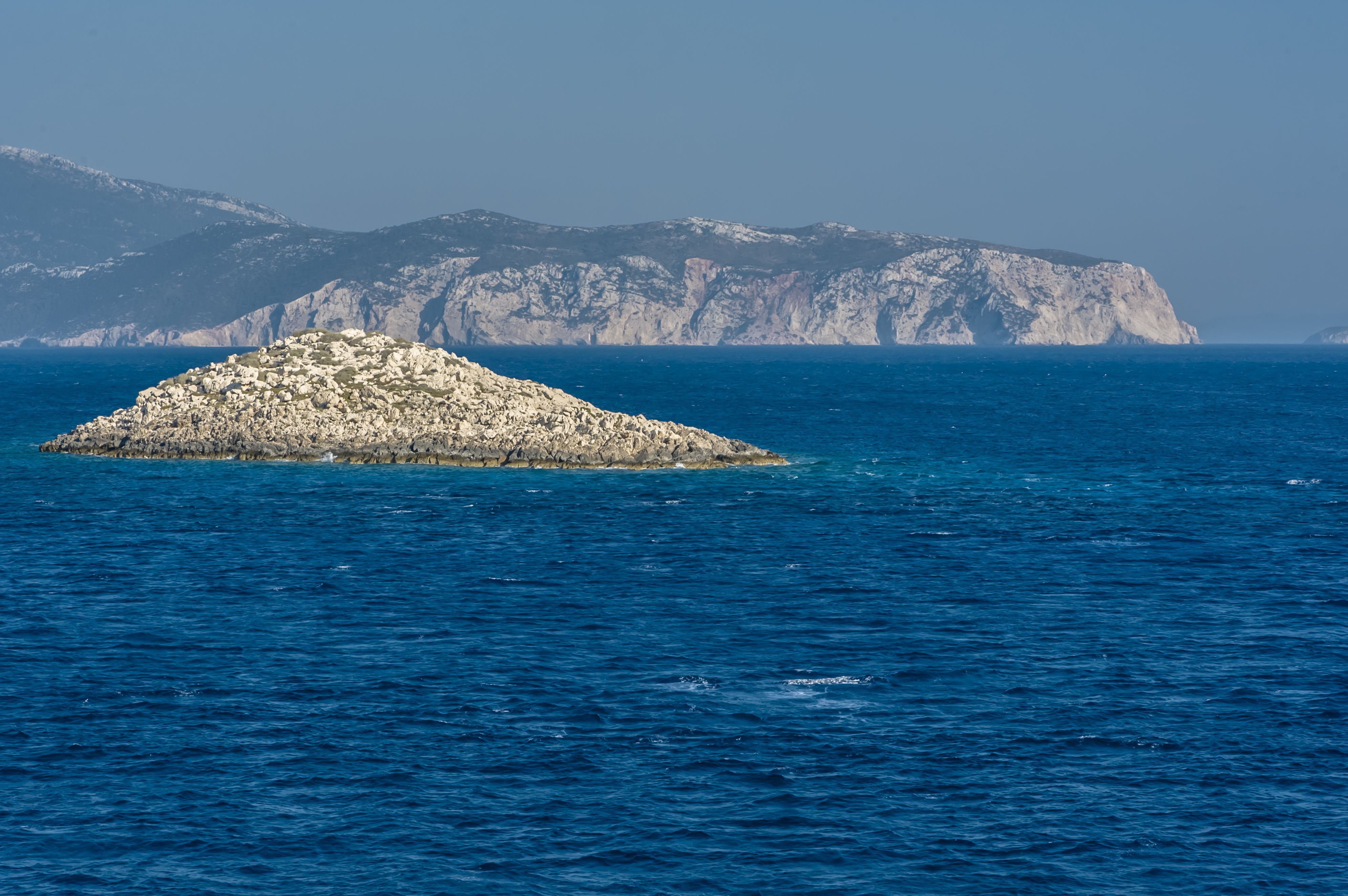 This is a photography of Natura 2000 protected area with ID GR4210026